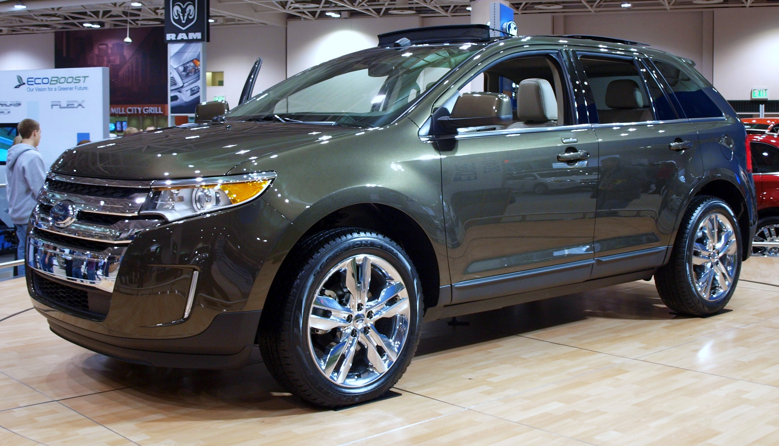 2011 Ford Edge at 2010 Minneapolis and St. Paul Auto Show.